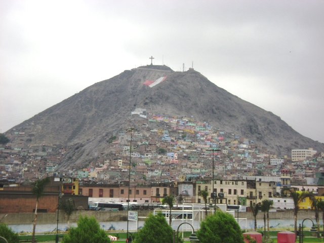 San Cristóbal Hill, Lima.